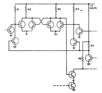 Typical direct-coupler transistor logic (DCTL) circuit of the Leprechaun computer developed at Bell Telephone Laboratories. The circuit is a portion of a shift register, and contains all of the commonly-encountered DCTL circuit configurations.